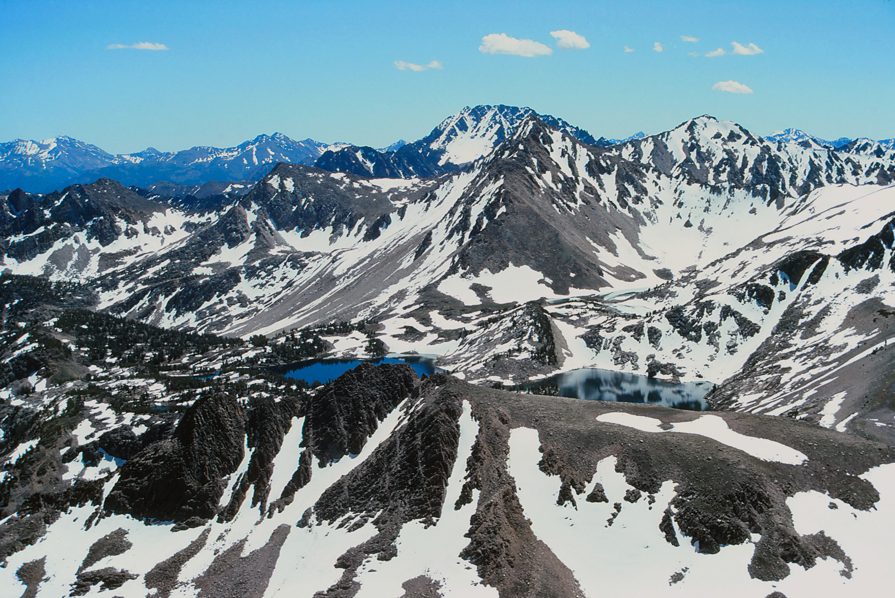 At center, Castle Peak. Photo taken from a ridge on the south flank of Calkens Peak. I never made it to the top. I had promised my friends I would be back by a certain time and I was going to be late. Could've made it perhaps - I was probably 1,200 feet (370 m) shy of the summit but alone. Scanned slide.